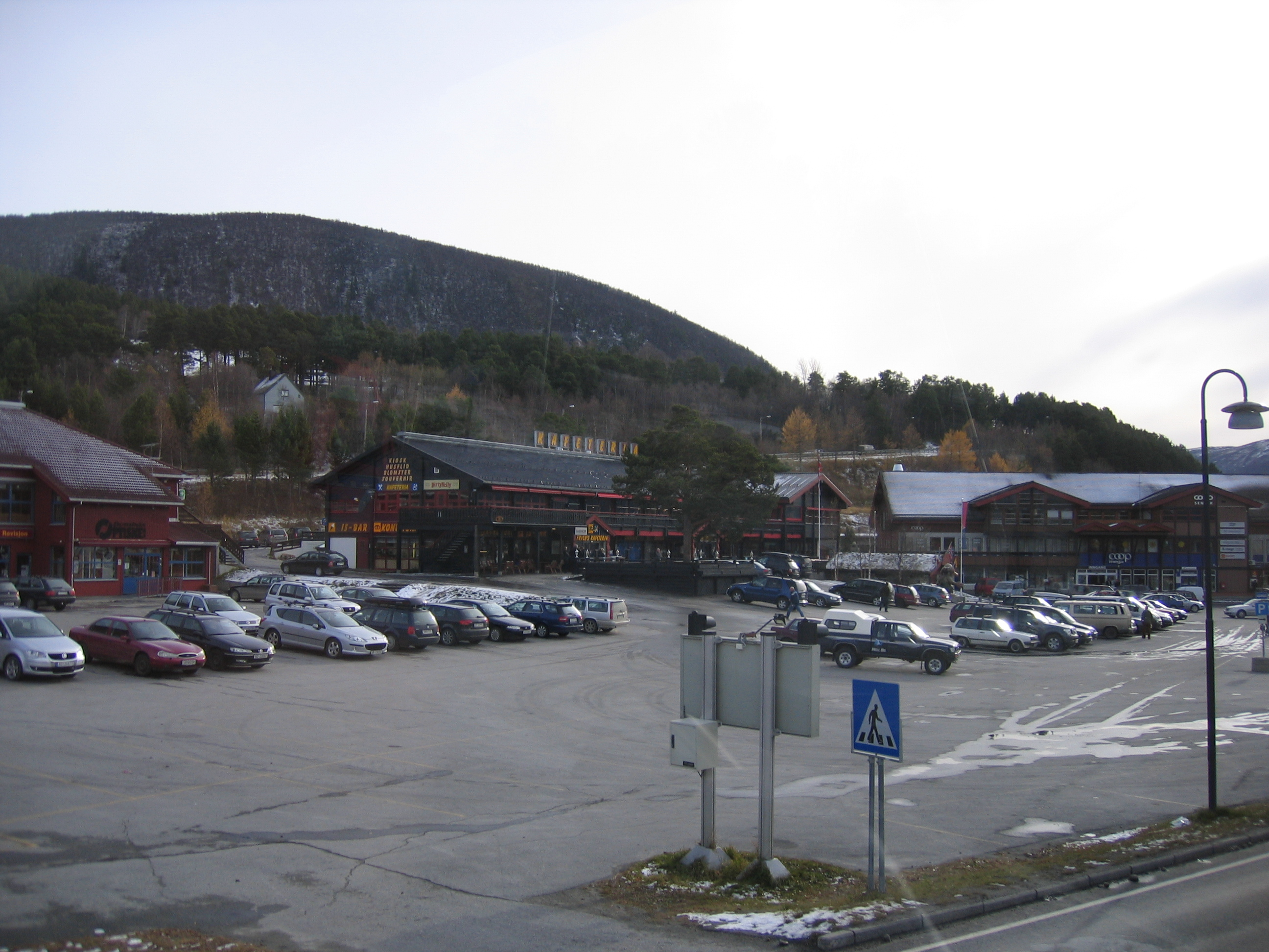 Dombås in Norway.